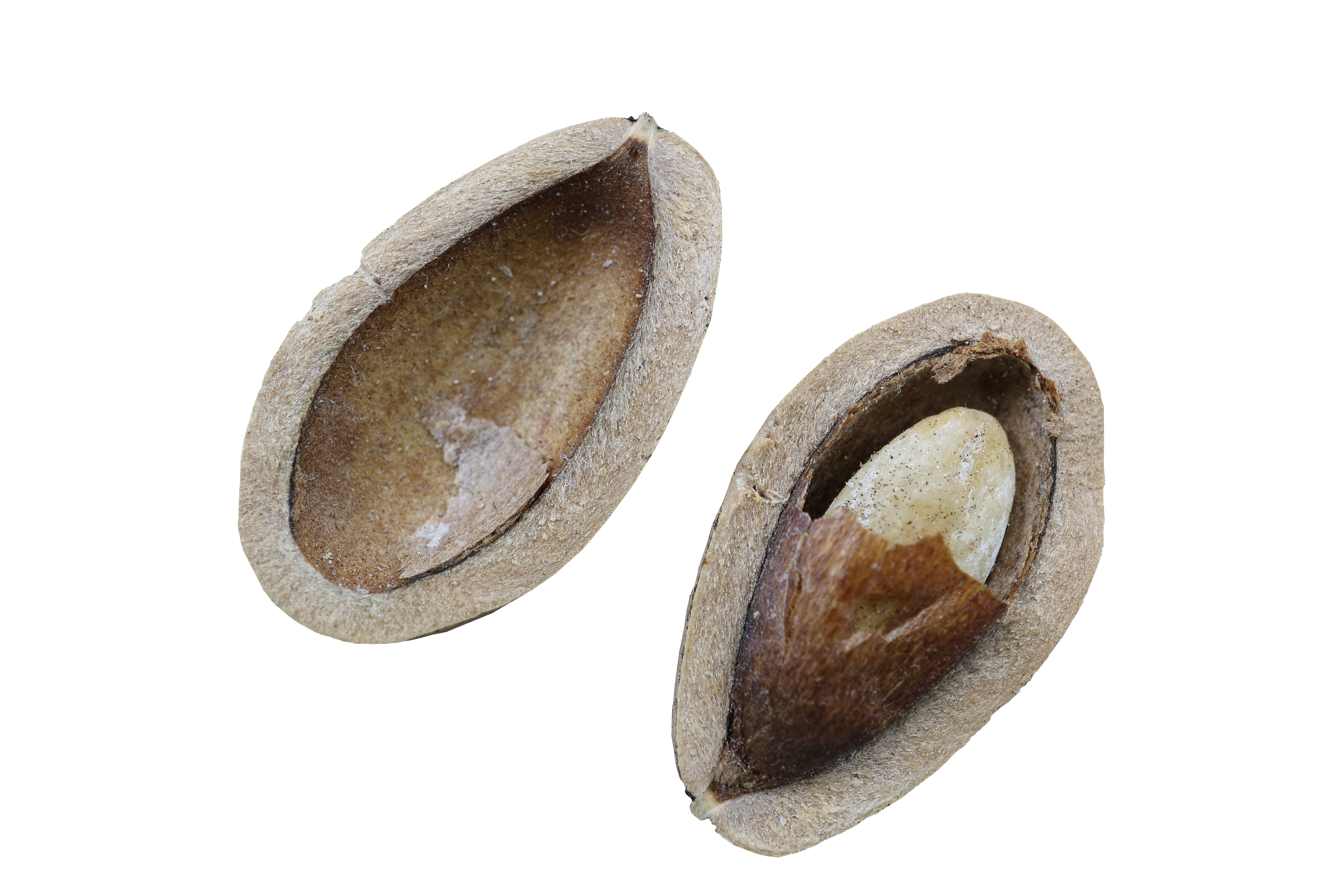 Pine nut in opened shell. Macro photograph on white background.